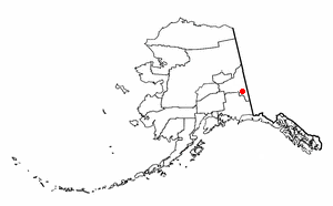 Adapted from Wikipedia's AK borough maps by Seth Ilys.